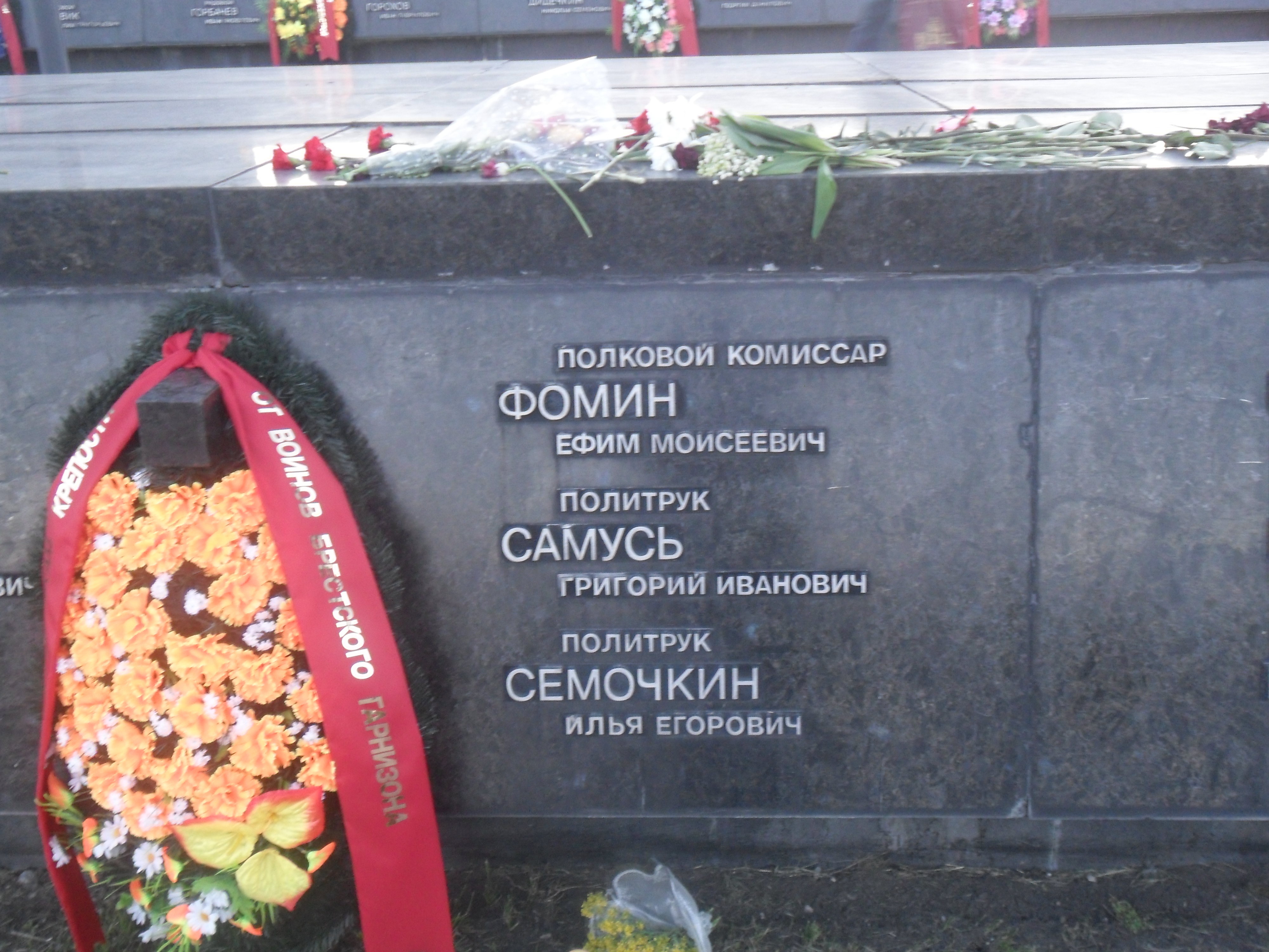 A sign with the name of the regimental Commissar Fomin on graves participants Brest Fortress Square ceremonies.